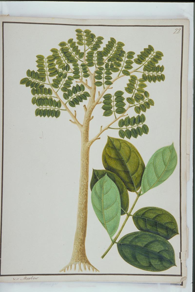 Intsia palembanica